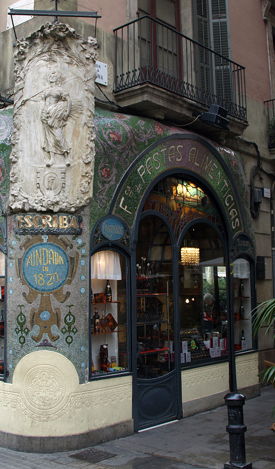 Antigua Casa Figueras - Catalan Modernisme (Antoni Ros i Güell, 1902)